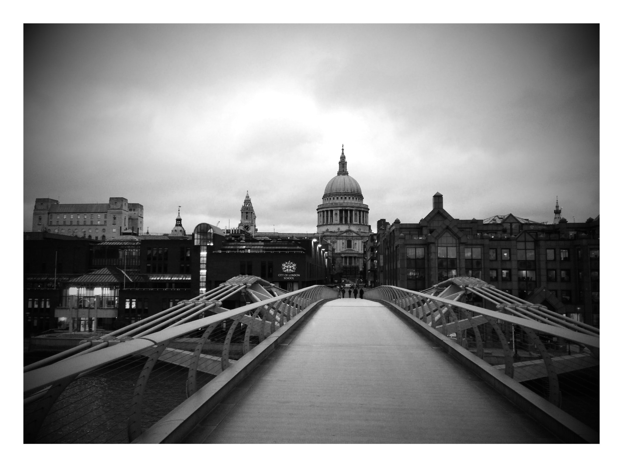 500px provided description: St. Paul's Cathedral from the Millennium Bridge (London) [#bridge ,#London ,#Cathedral]